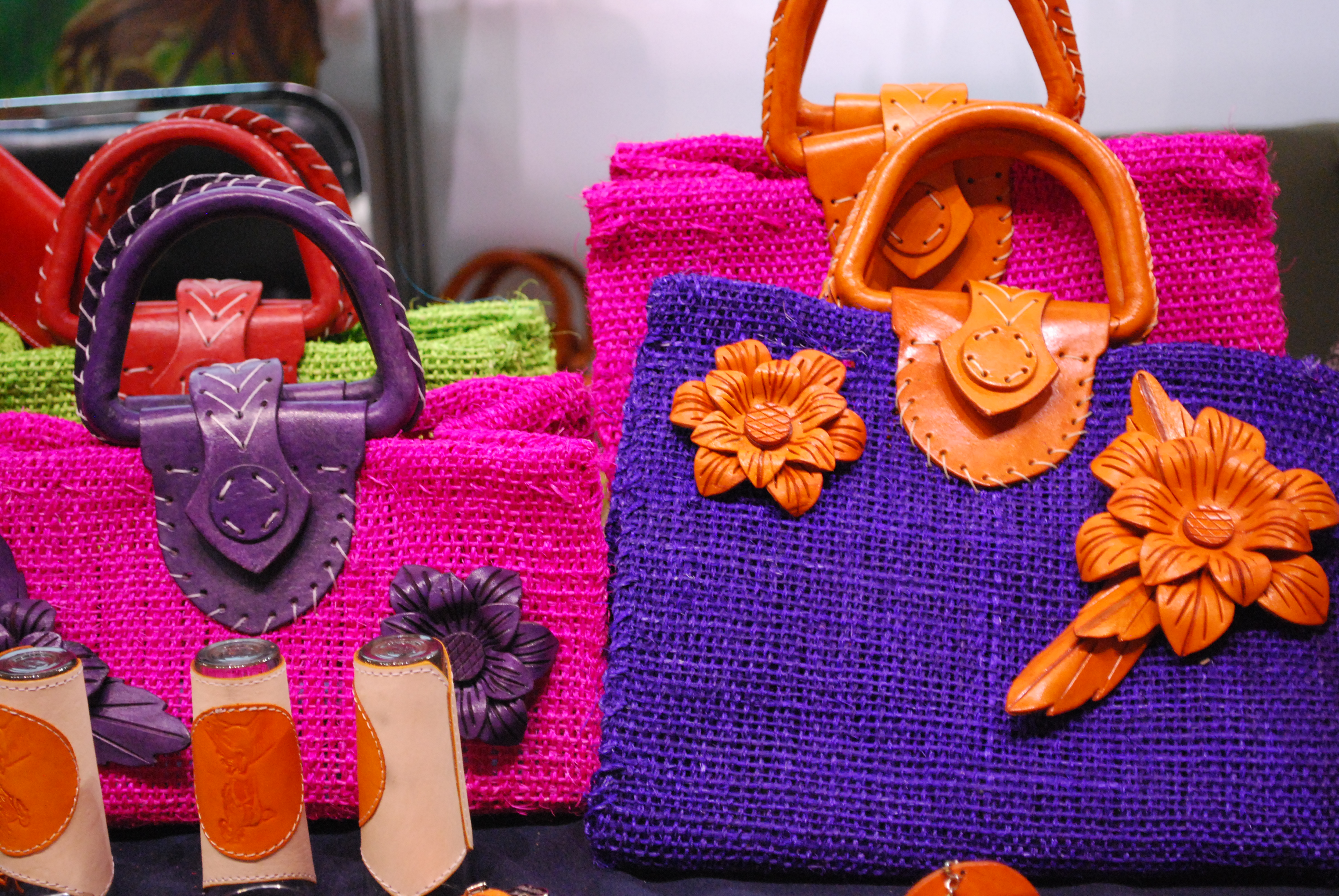 Close up of handbags for sale at the 2010 FONART exhibition in Mexico City